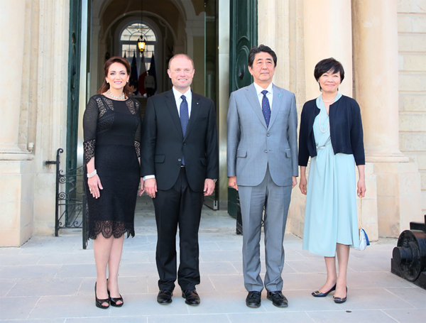 Michelle Tanti of Malta, Prime Minister Joseph Muscat, Prime Minister Shinzō Abe and First Lady of Japan Akie Abe.